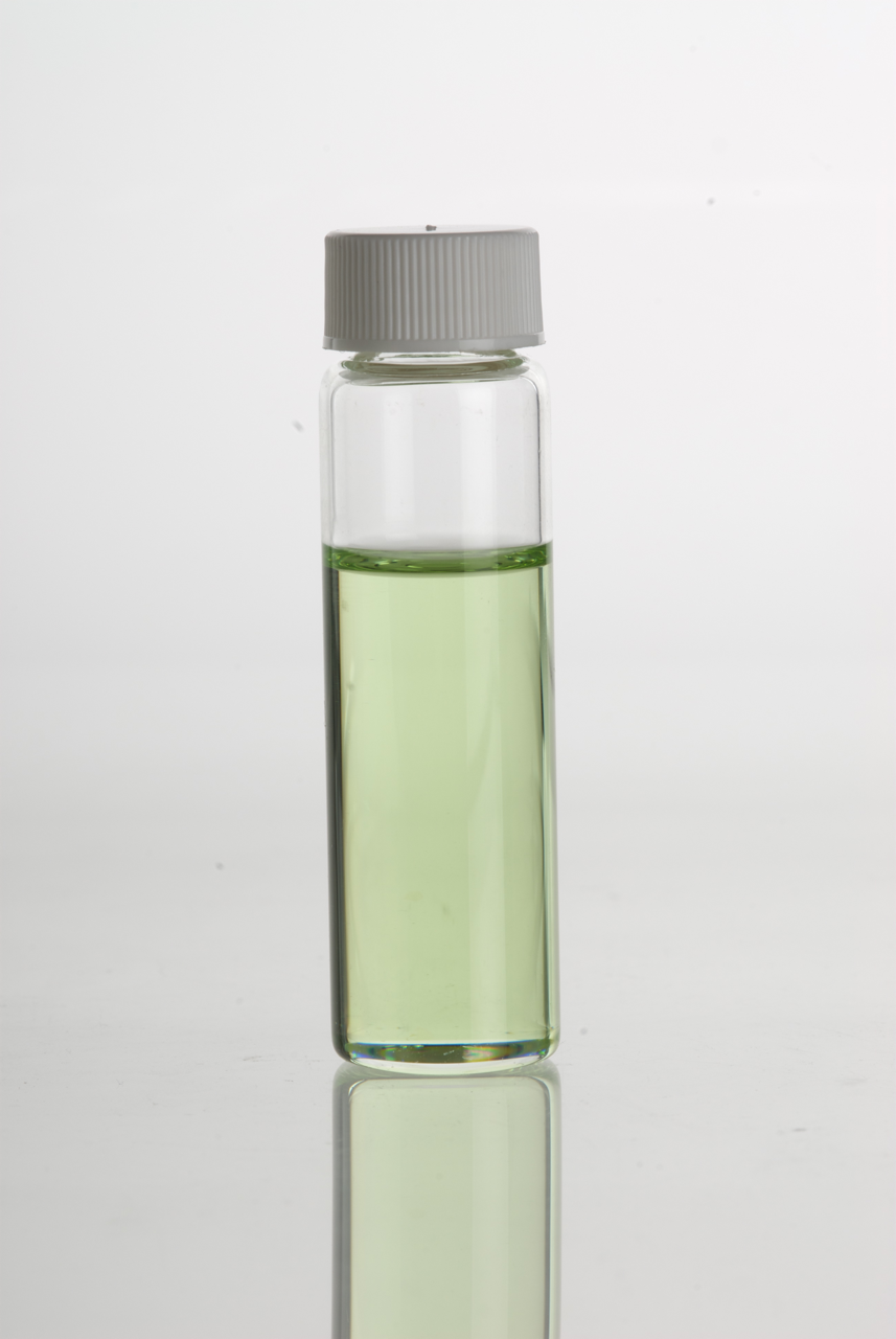 Lemon (Citrus limon) Essential Oil in clear glass vial